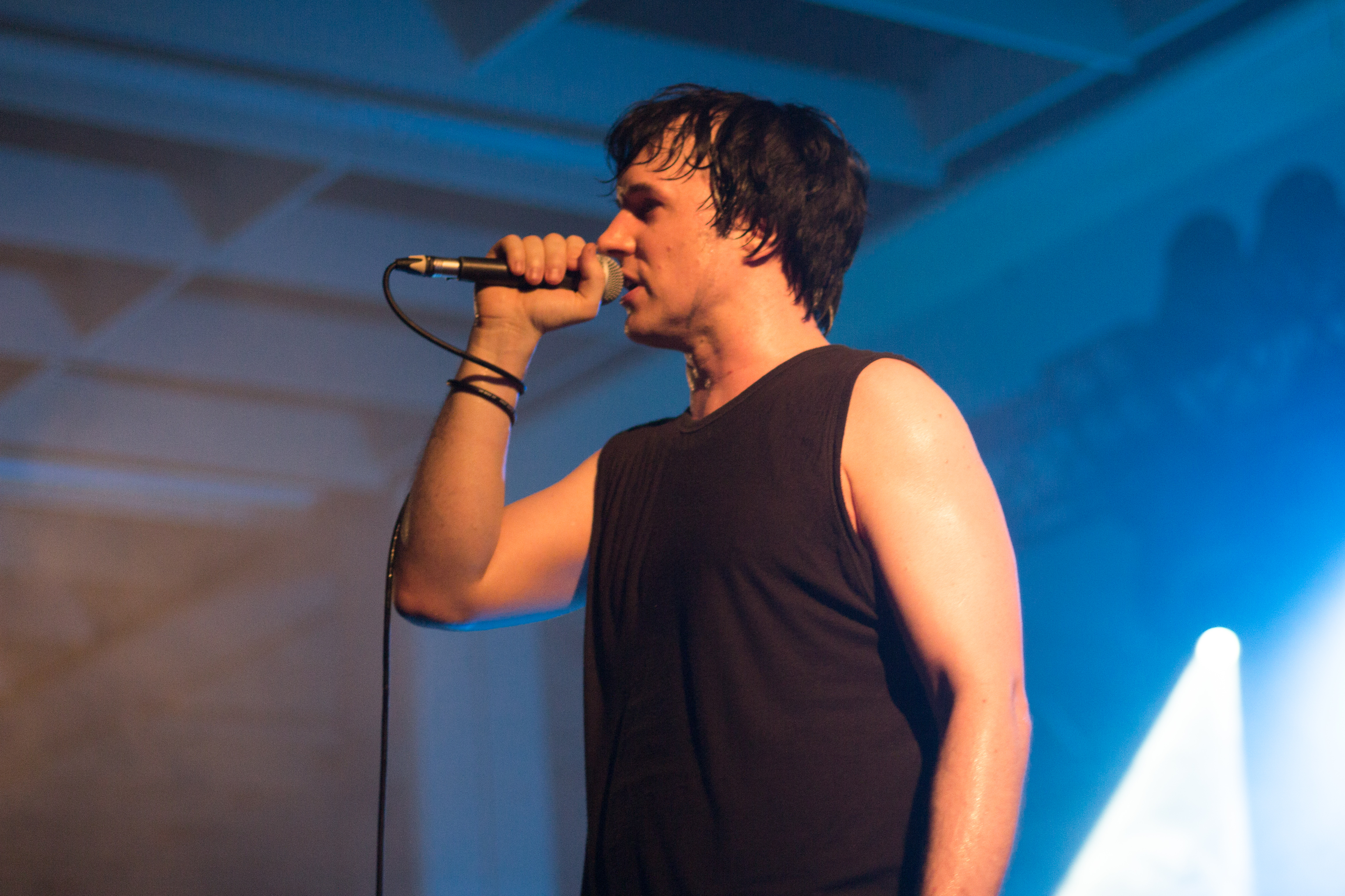 Atari Teenage Riot performing at Amphi 2013 in Köln.